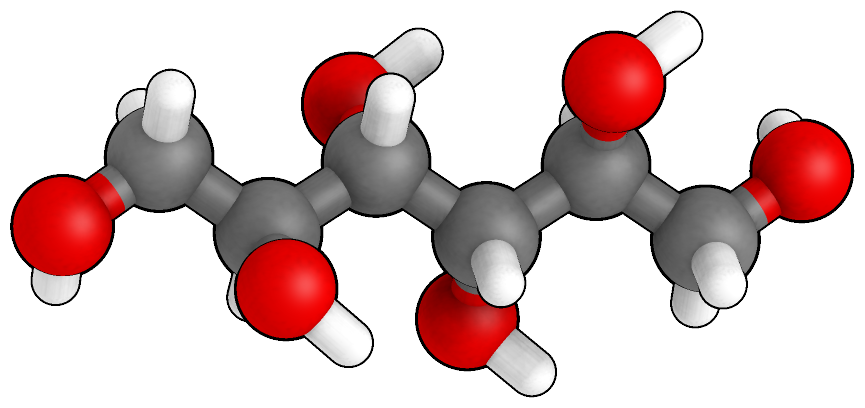 3D (balls and sticks) model of D-Mannitol Rendered in QuteMol